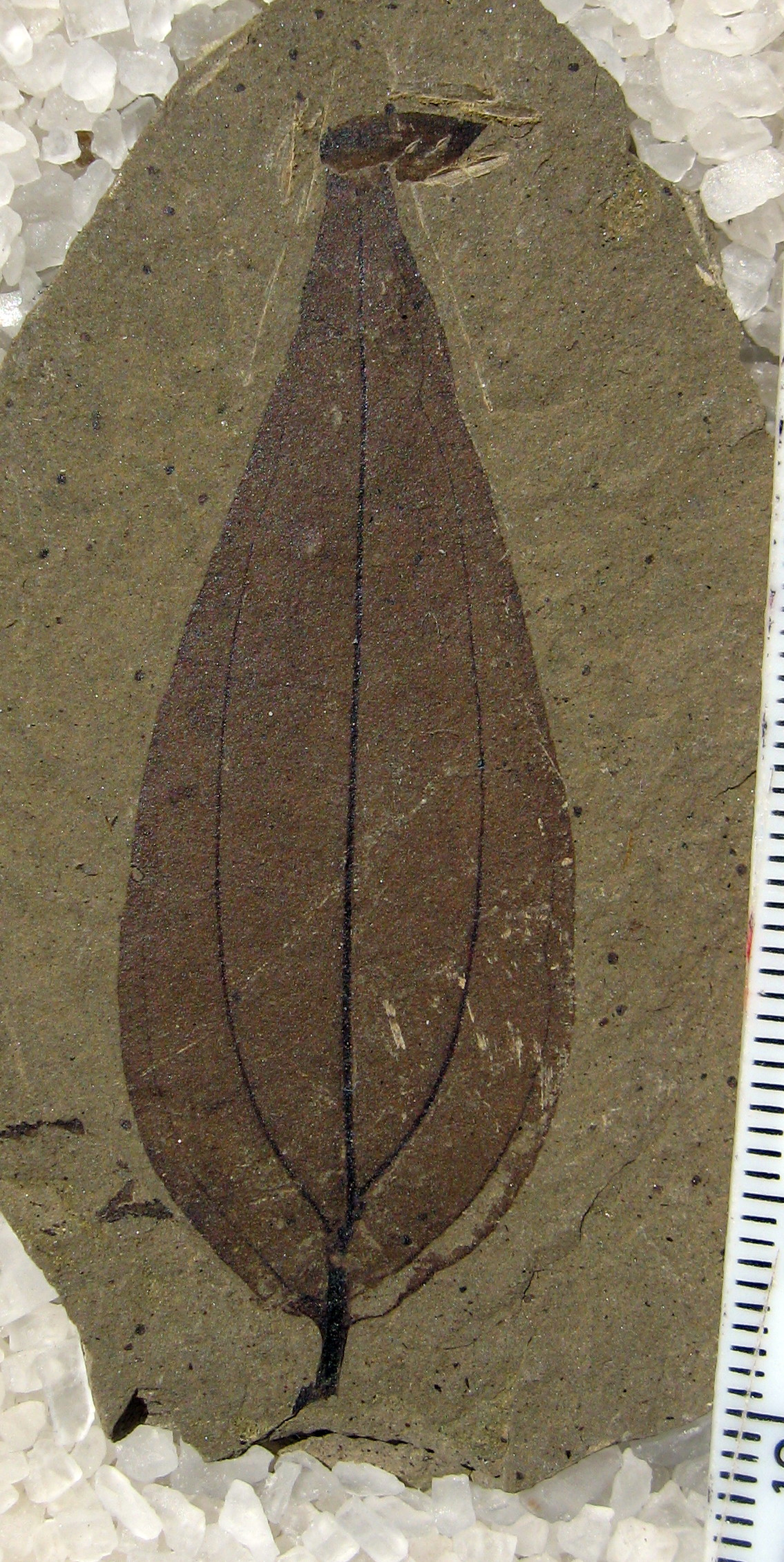 An incomplete 6.5 cm (2.6 in) Schoepfia republicensis leaf missing the elongated drip tip apex. Ypresian, Latest Early Eocene; Tom Thumb Tuff member, Klondike Mountain Formation, Republic, Washington, U.S.A. Stonerose Interpretive Center, Republic, Ferry County, Washington, U.S.A. Collection number SR 98-11-05